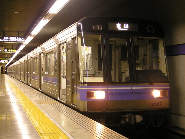 Nagoya Subway 2000 series set 2127 at Motoyama Station on the Meijo Line